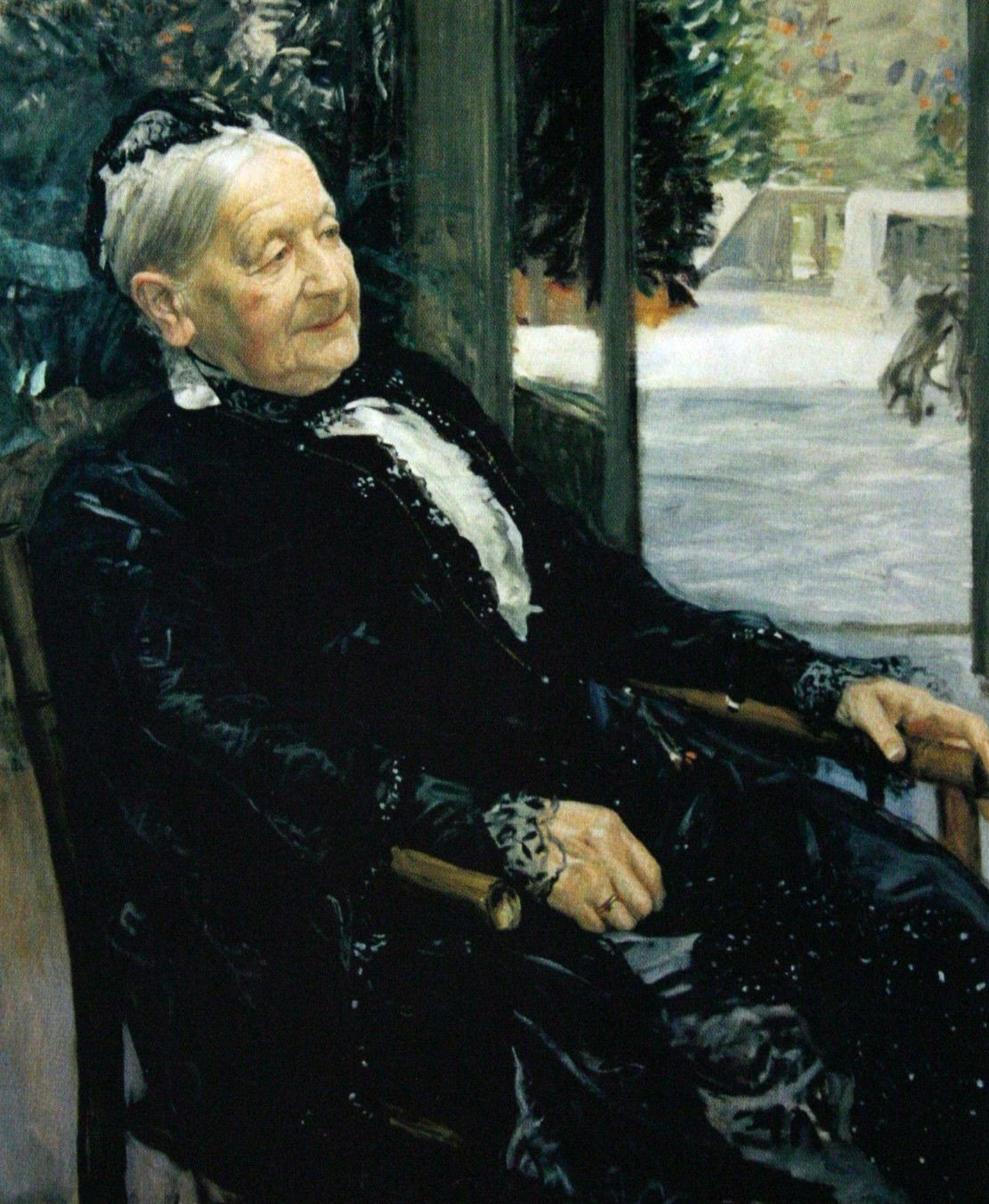 Portrait of Mrs Laura Beit (Alfred Beit's and Otto Beit's mother) - Oil on canvas